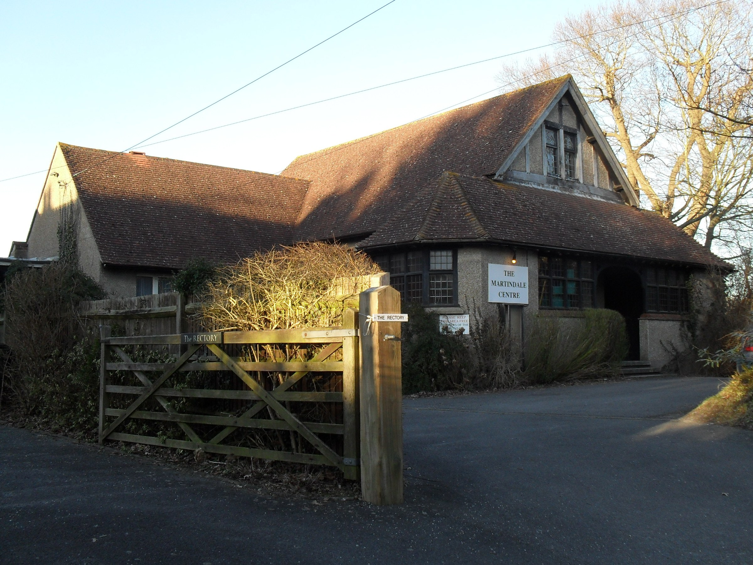 Martindale Centre (formerly the Horsted Keynes Congregational Hall), Horsted Keynes, district of Mid Sussex, West Sussex, England. An independent Congregational chapel founded by Louisa Martindale, built in 1907 and extended in 1950; now a multi-purpose social centre.